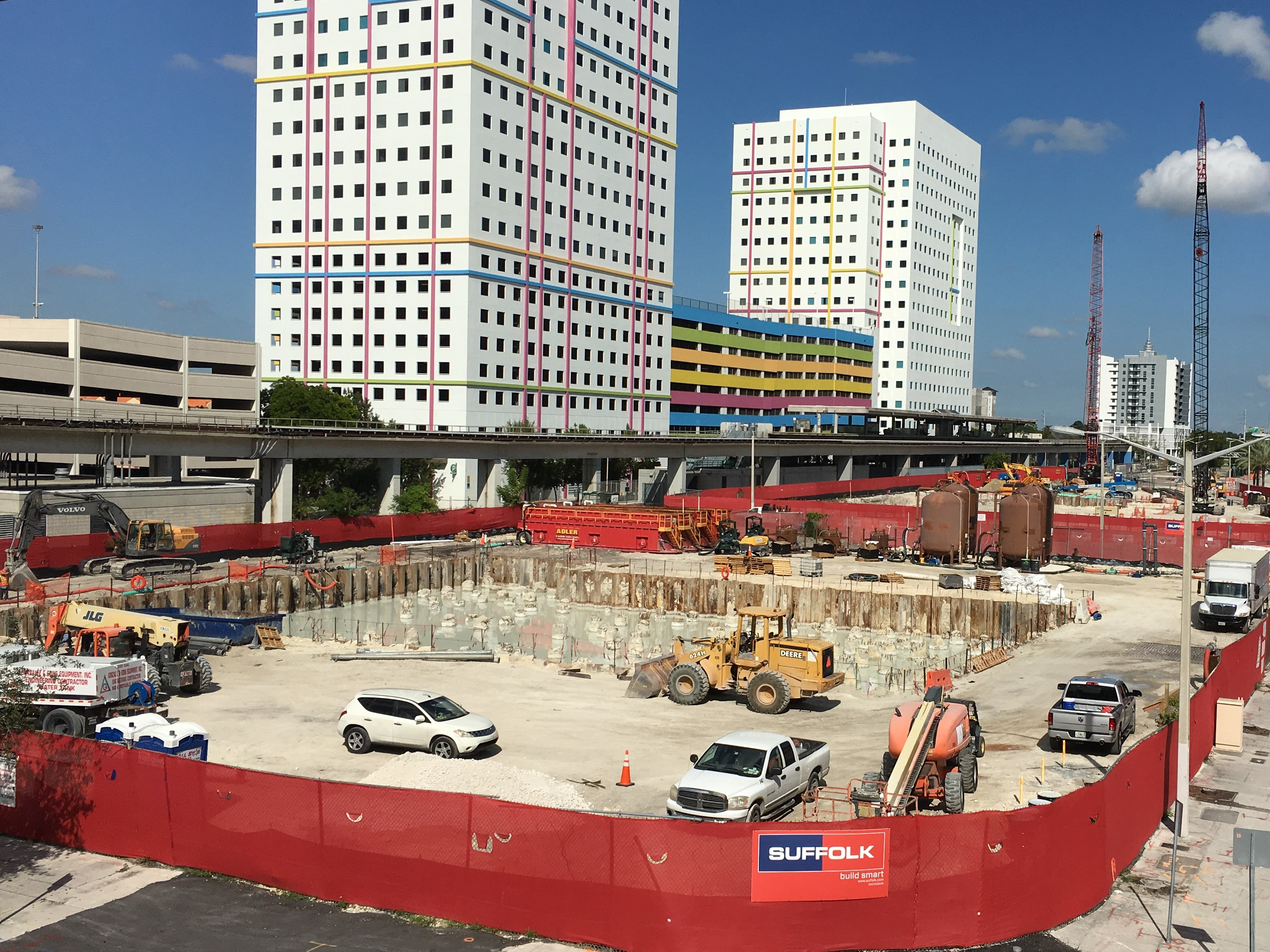 Groundwork being done for the foundation of MiamiCentral station.